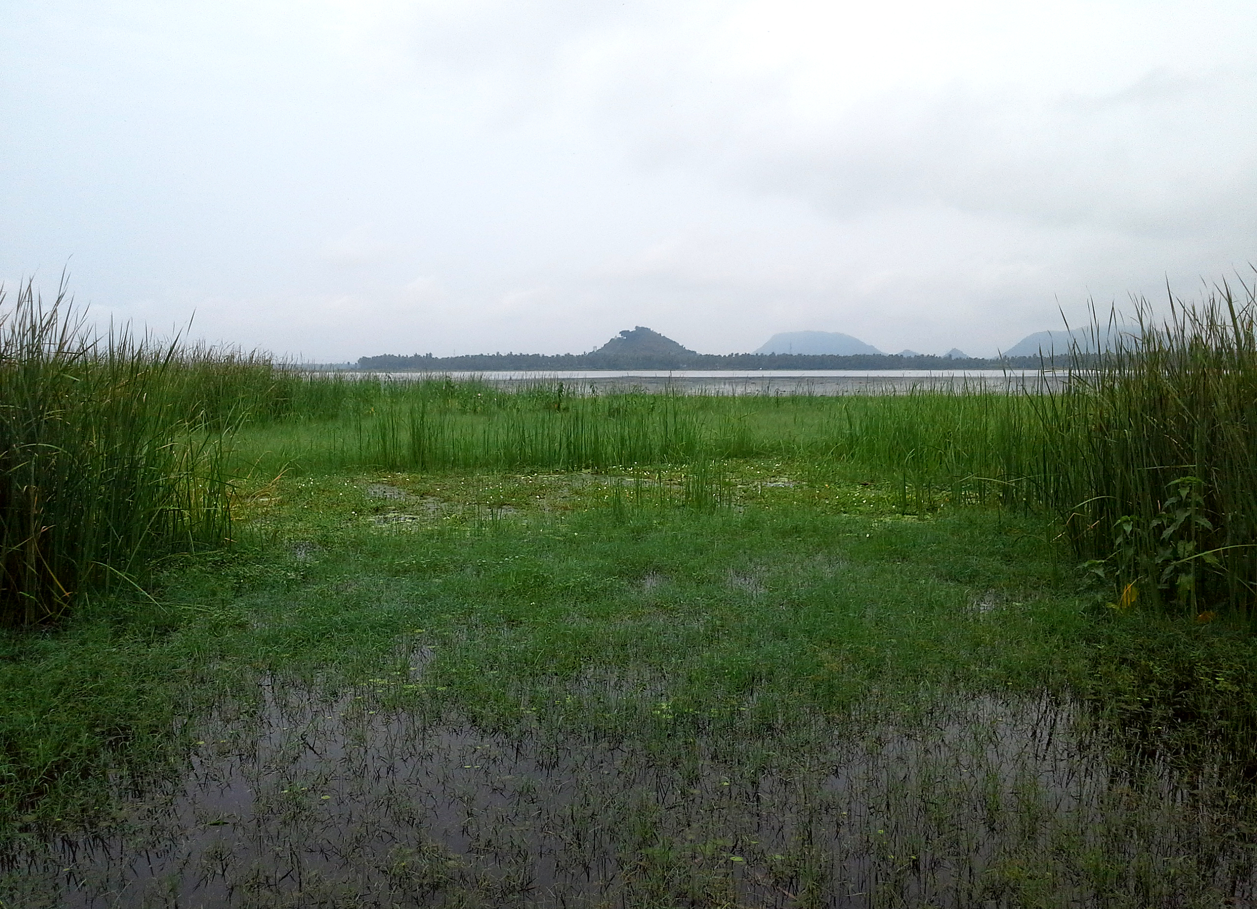 Kondakarla ava lake view from the swampy area in the Bird Sanctuary, Visakhapatnam district